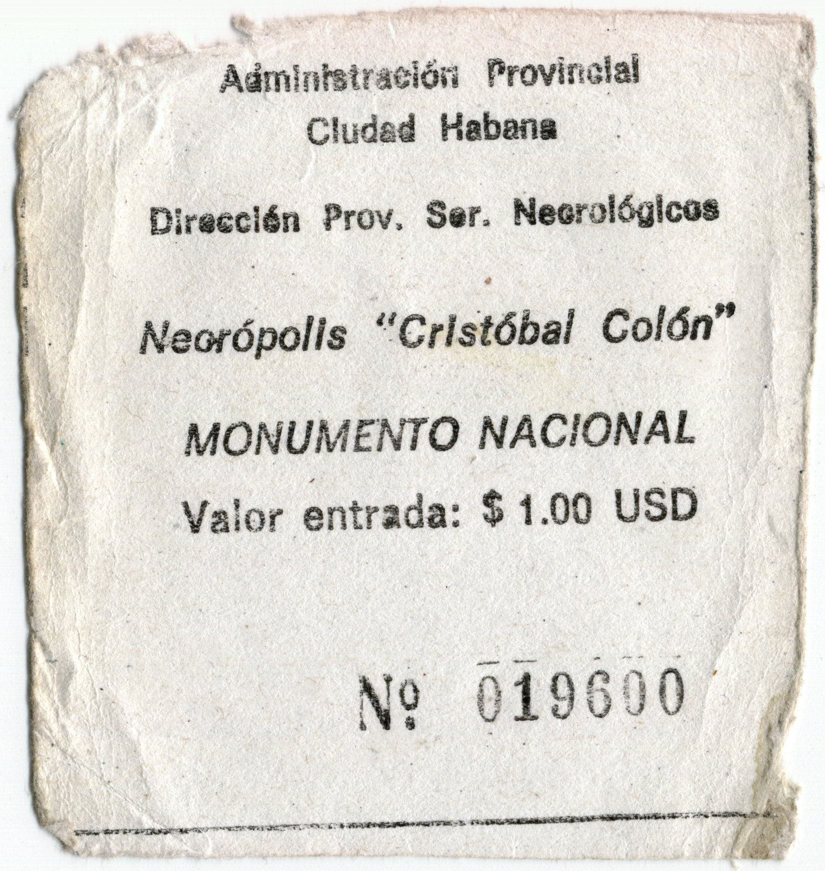 Ticket for the tourists allowing them to enter Colon Cemetery (Cementerio Cristóbal Colón).